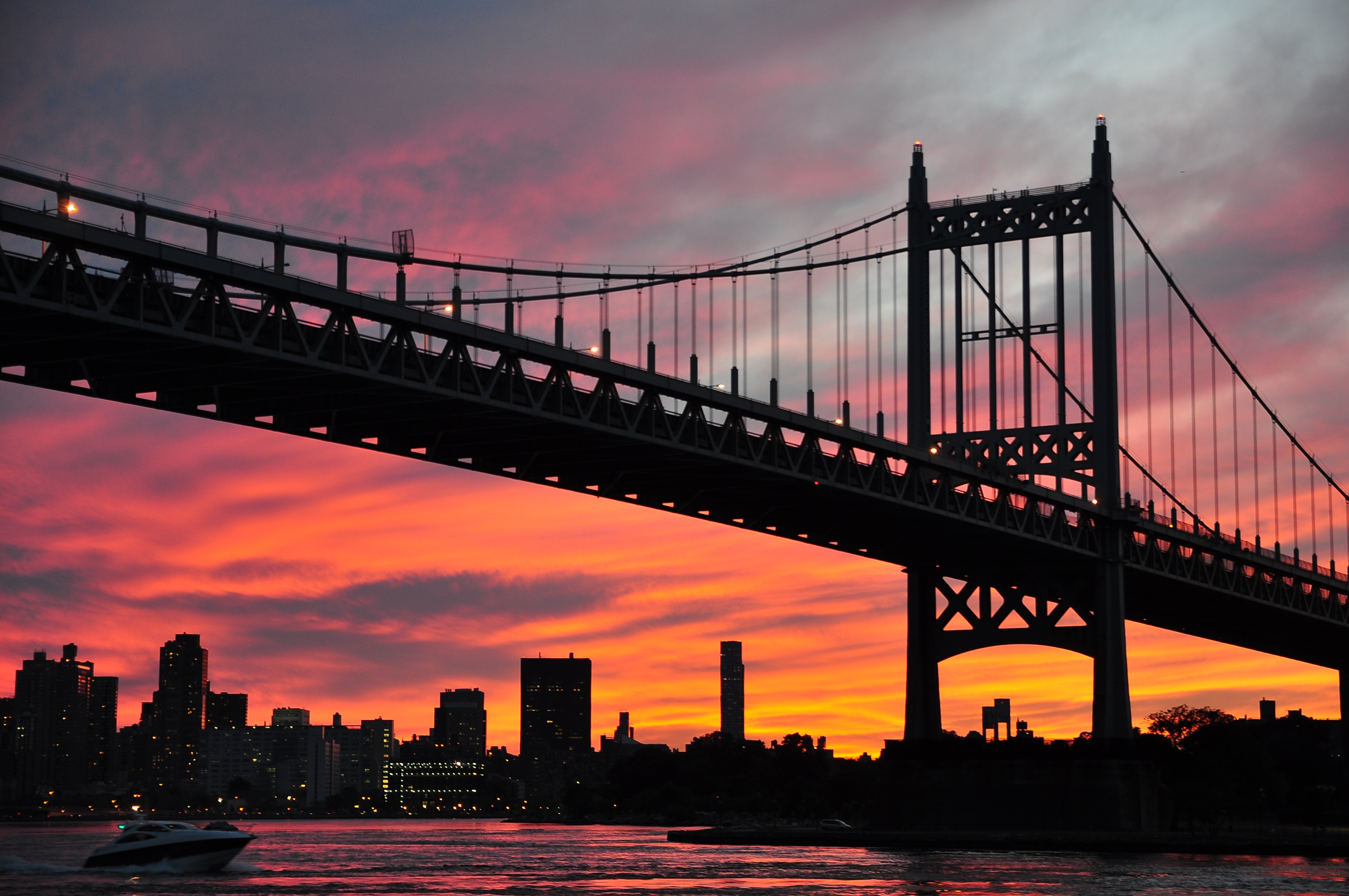 A Bridges and Tunnels Maintainer took this photo, of the Robert F. Kennedy Bridge's Queens span at sunrise, while bicycling around Randall’s Island during a break. Photo: Marvin Springer, MTA / Bridges and Tunnels